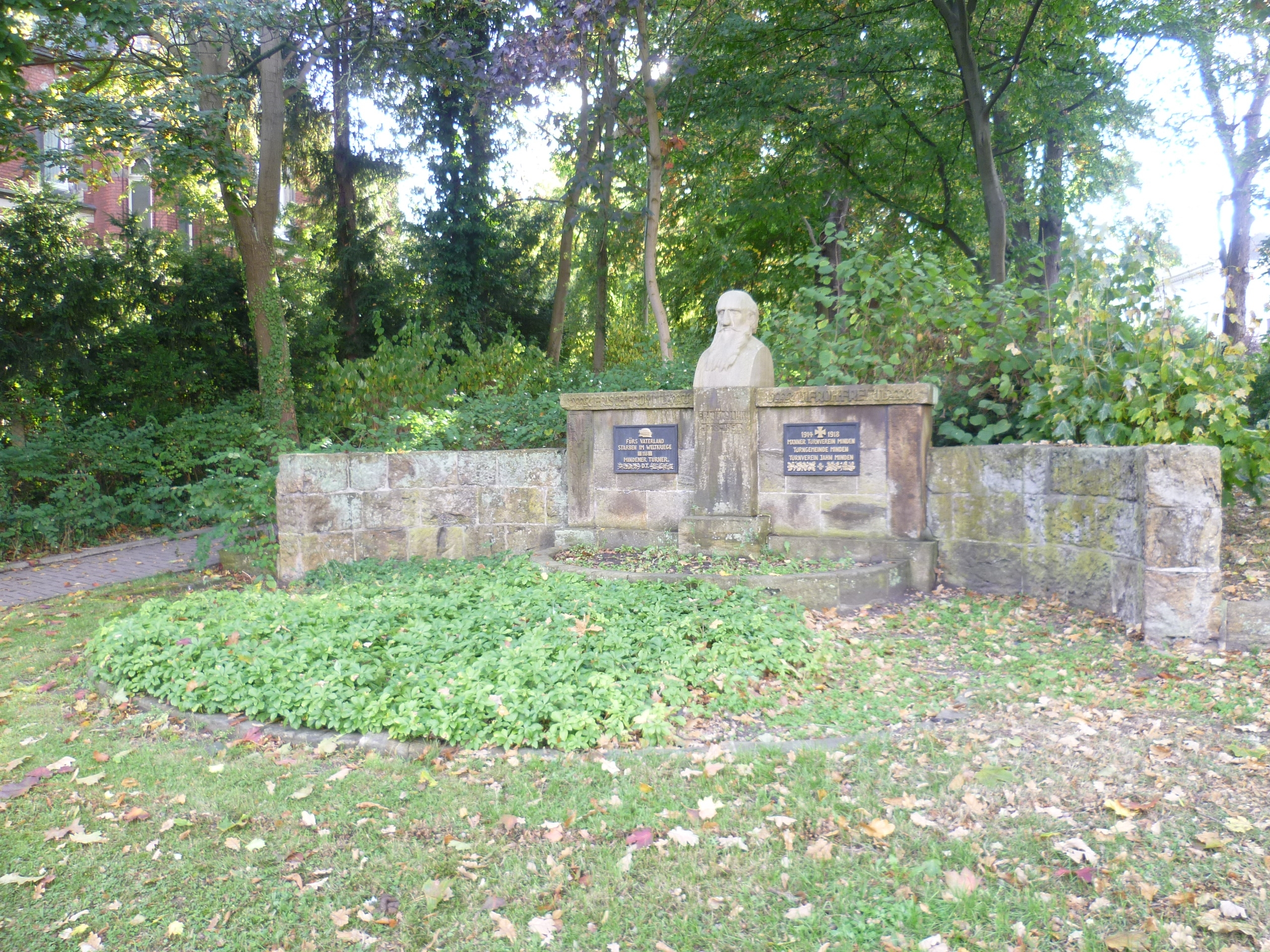 This image shows a heritage building in Germany, located in the North Rhine-Westphalian city Minden (no. 345).